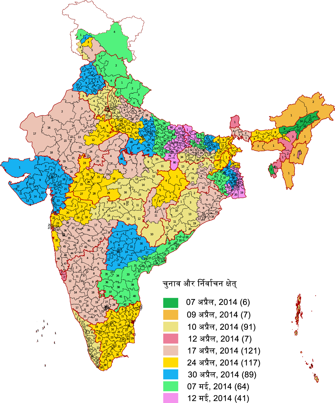 Election dates for the Indian general election, 2014.